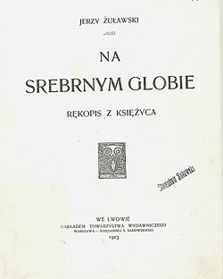 1903 cover of the Na srebrnym globie. Rękopis z Księżyca book